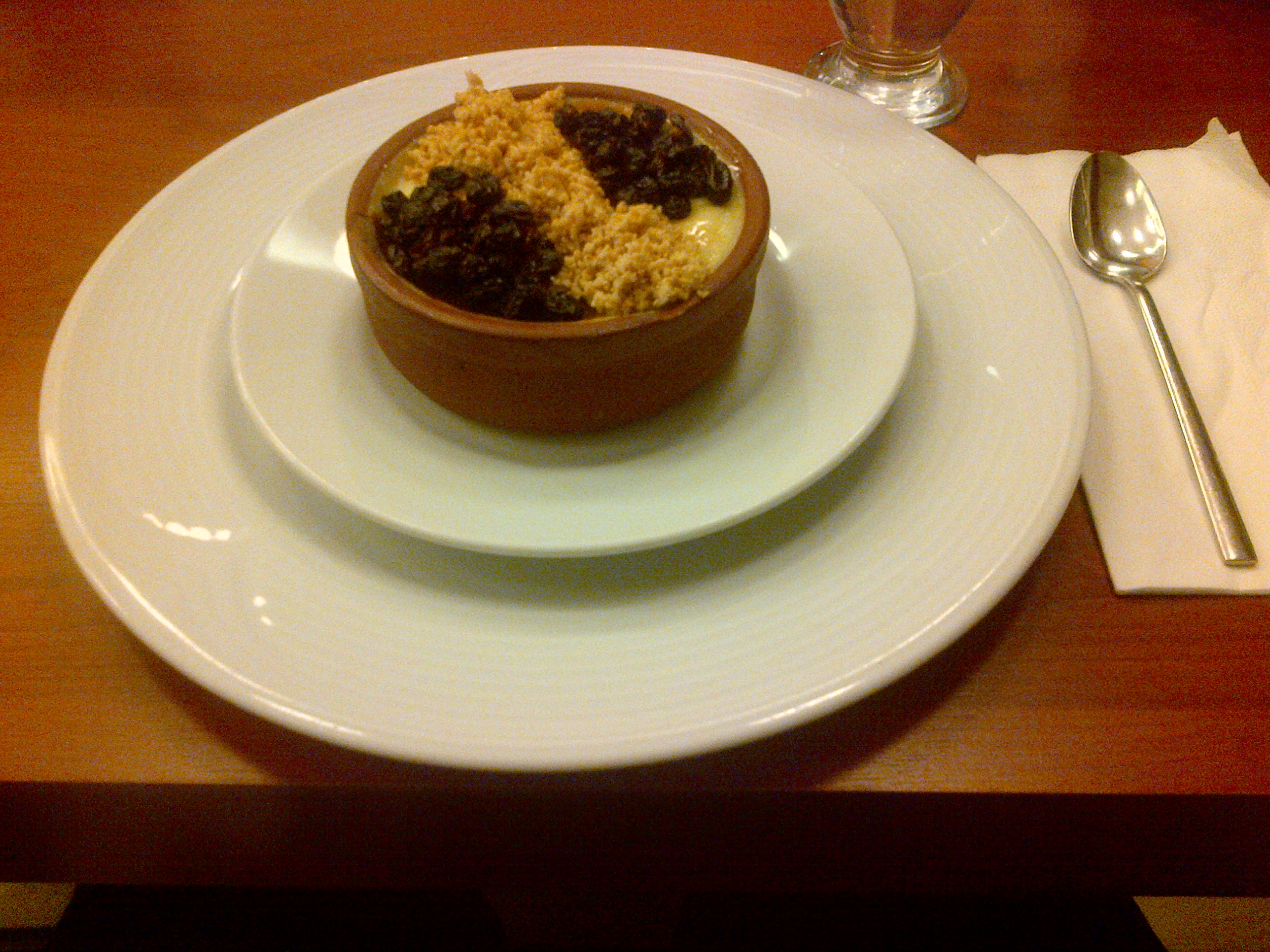 Turkish style rice pudding, "fırın sütlaç", with lots of hazelnut crumbs and hydrated "kuş üzümü" raisins (currants) on top.